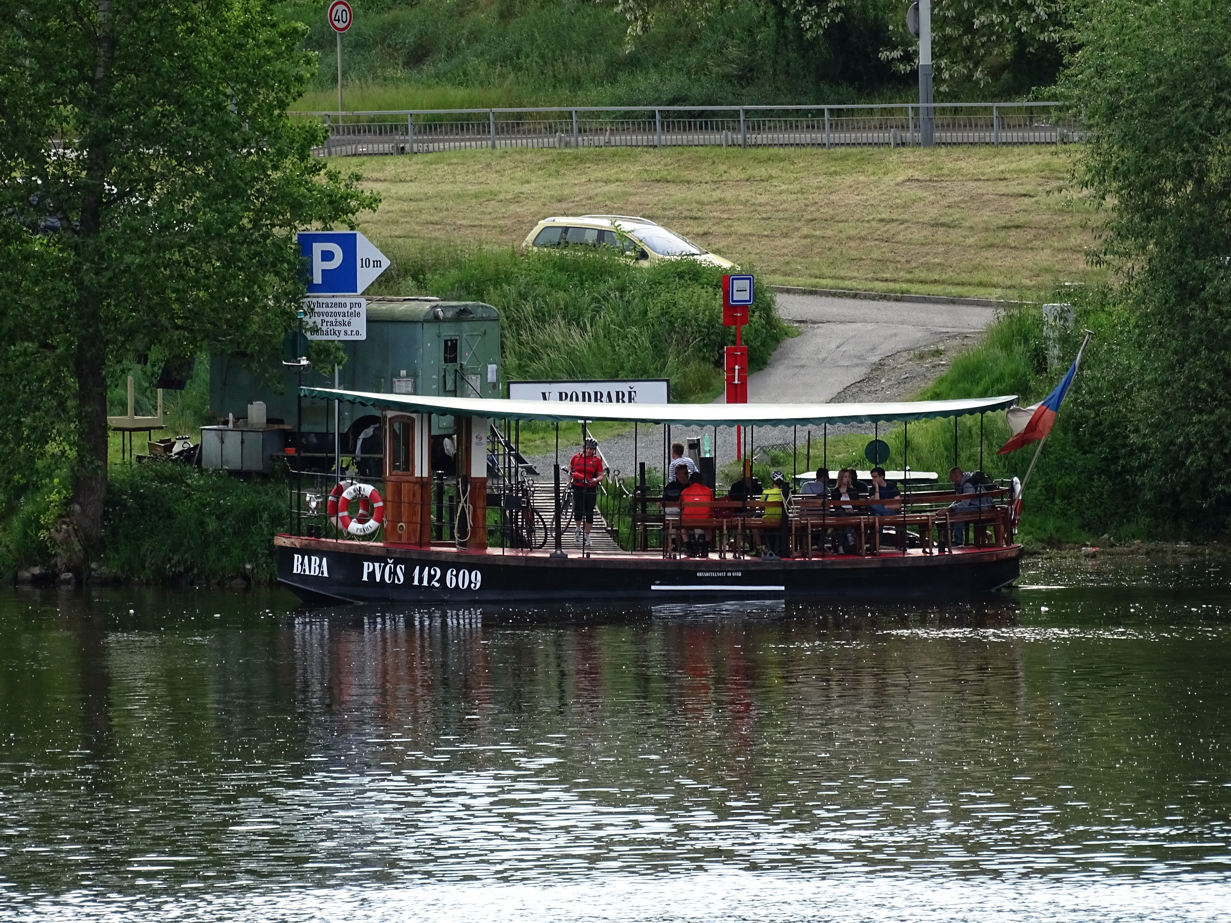 Prague-Sedlec, Czechia, Podhoří–Podbaba ferry.